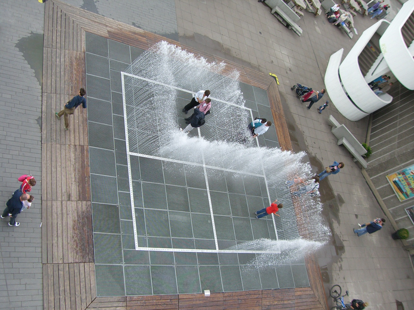 Water sculpture Appearing Rooms (2004) installation by Danish artist Jeppe Hein. Taken from fifth floor balcony of the Festival Hall in London